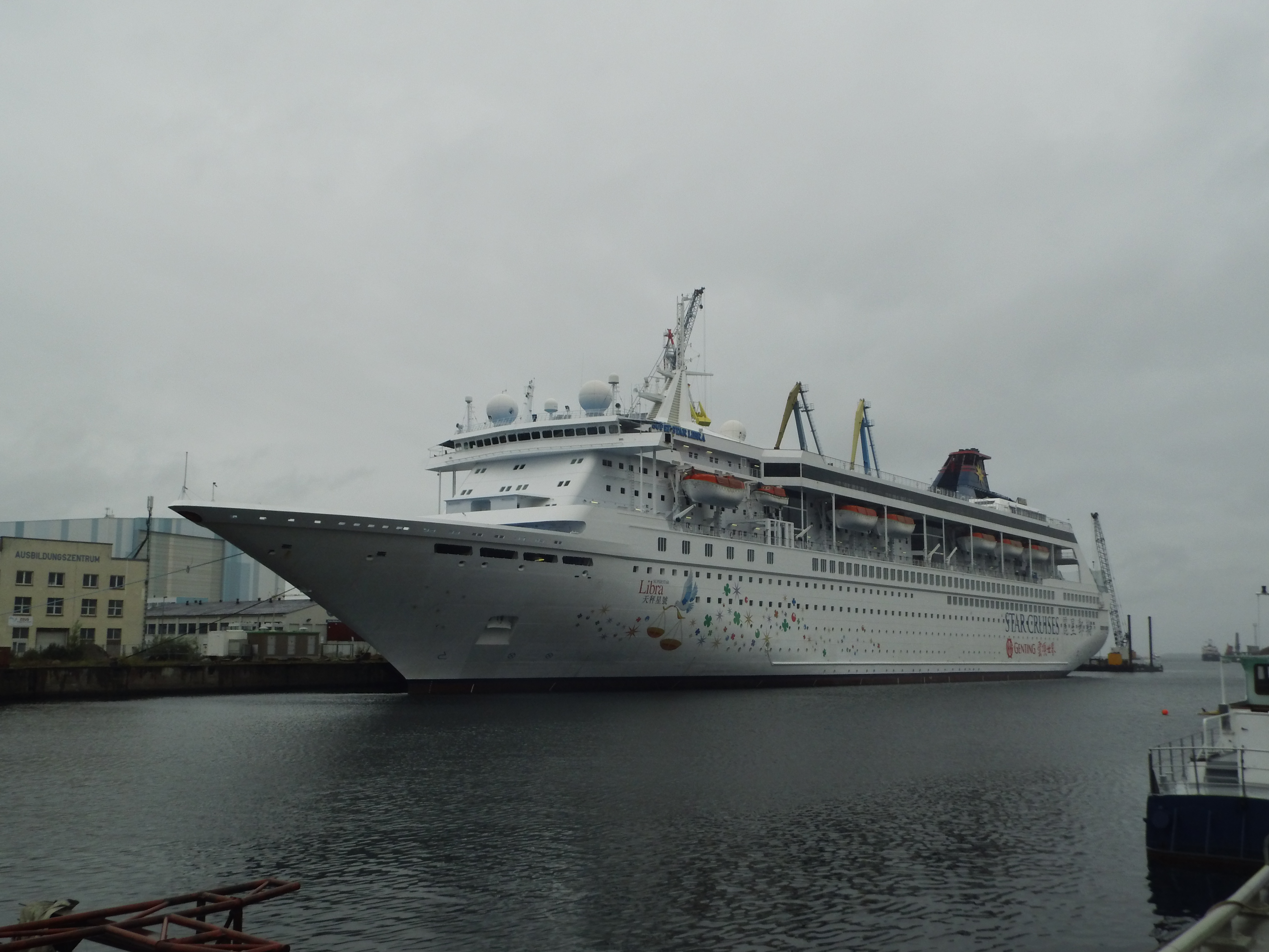 Accommodation vessel SuperStar Libra at MV Werften Wismar